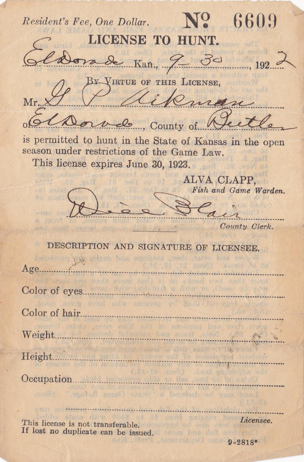 A 1922 State of Kansas hunting license